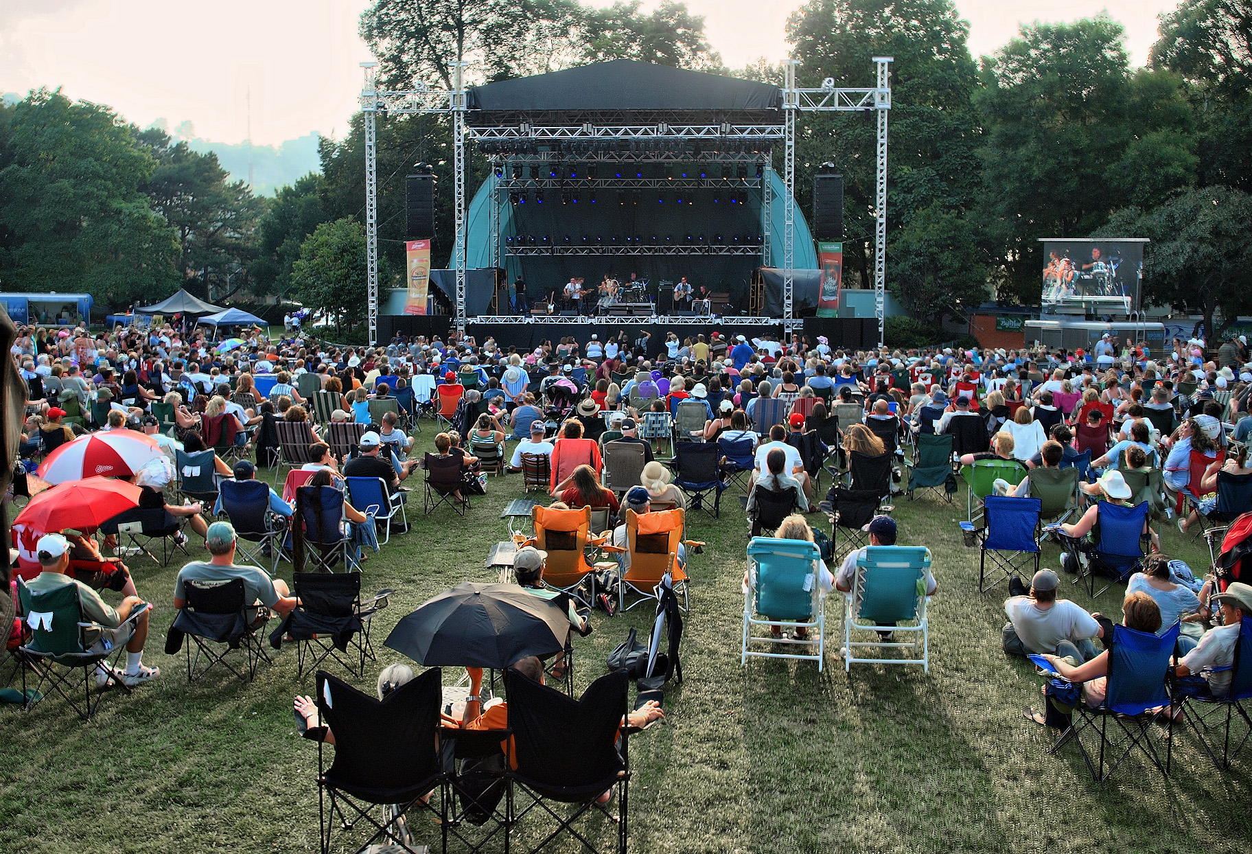 A crowd gathers on the lawn in Gage Park, Hamilton, ON, Canada to view music at the "Festival of Friends". Canada's largest free annual festival of its kind.